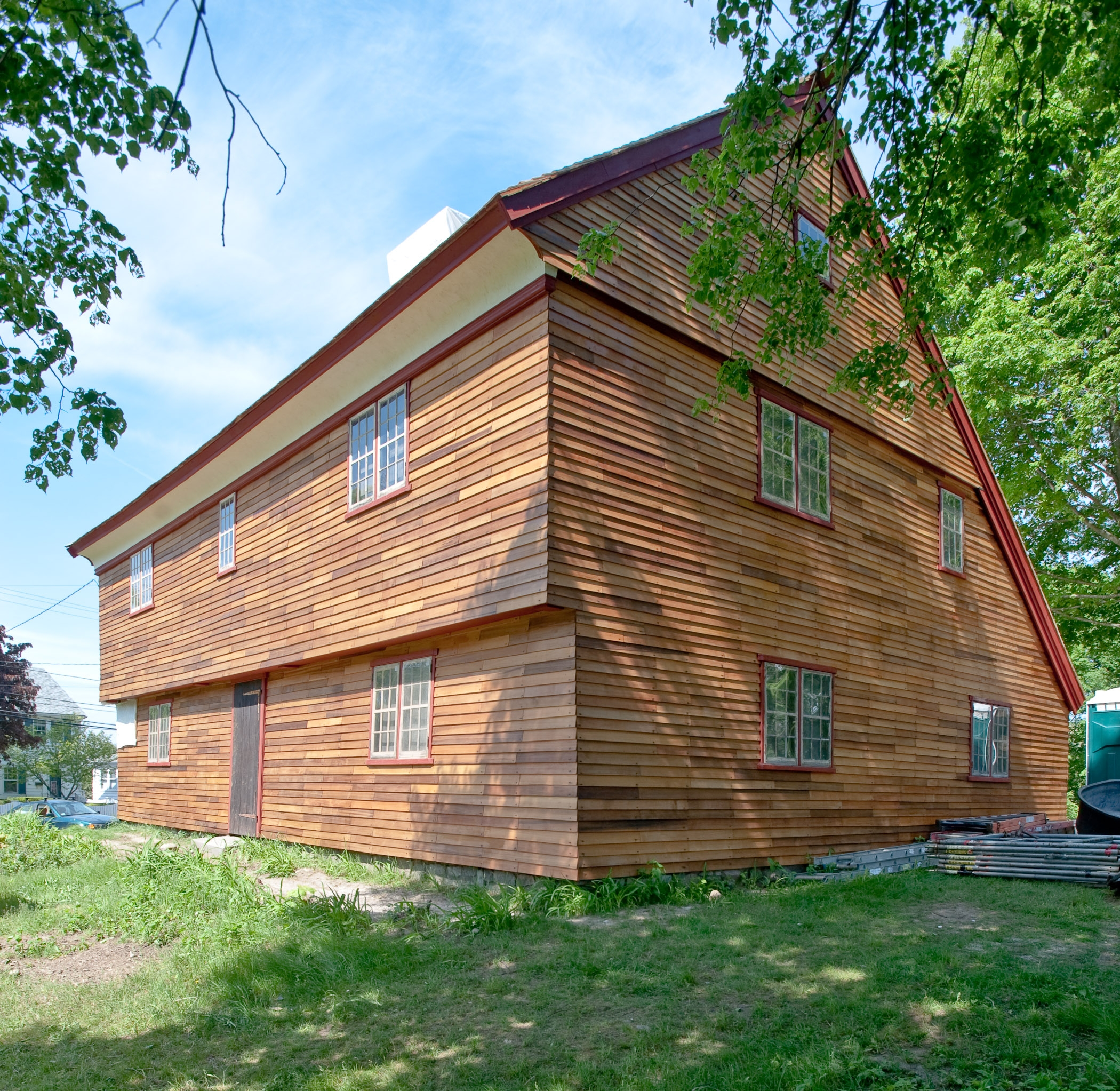 White-Ellery House post renovation